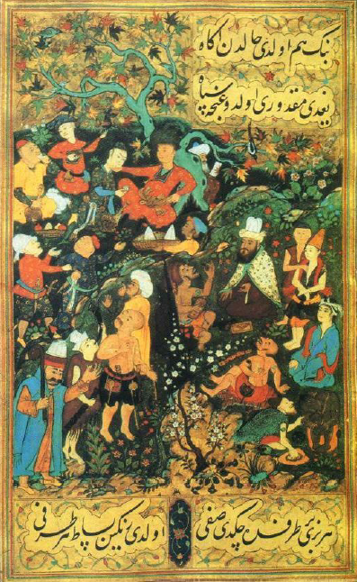 Miniature from Bengu Bade. Feast in desert}